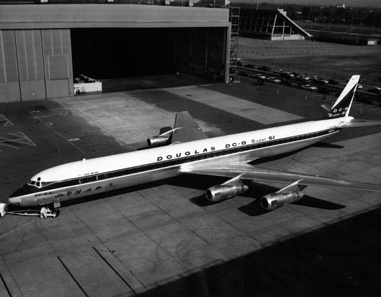 Catalog #: 00065973 Manufacturer: Douglas Designation: DC-8-61,-63 Official Nickname: Notes: Stretched versions Repository: San Diego Air and Space Museum Archive